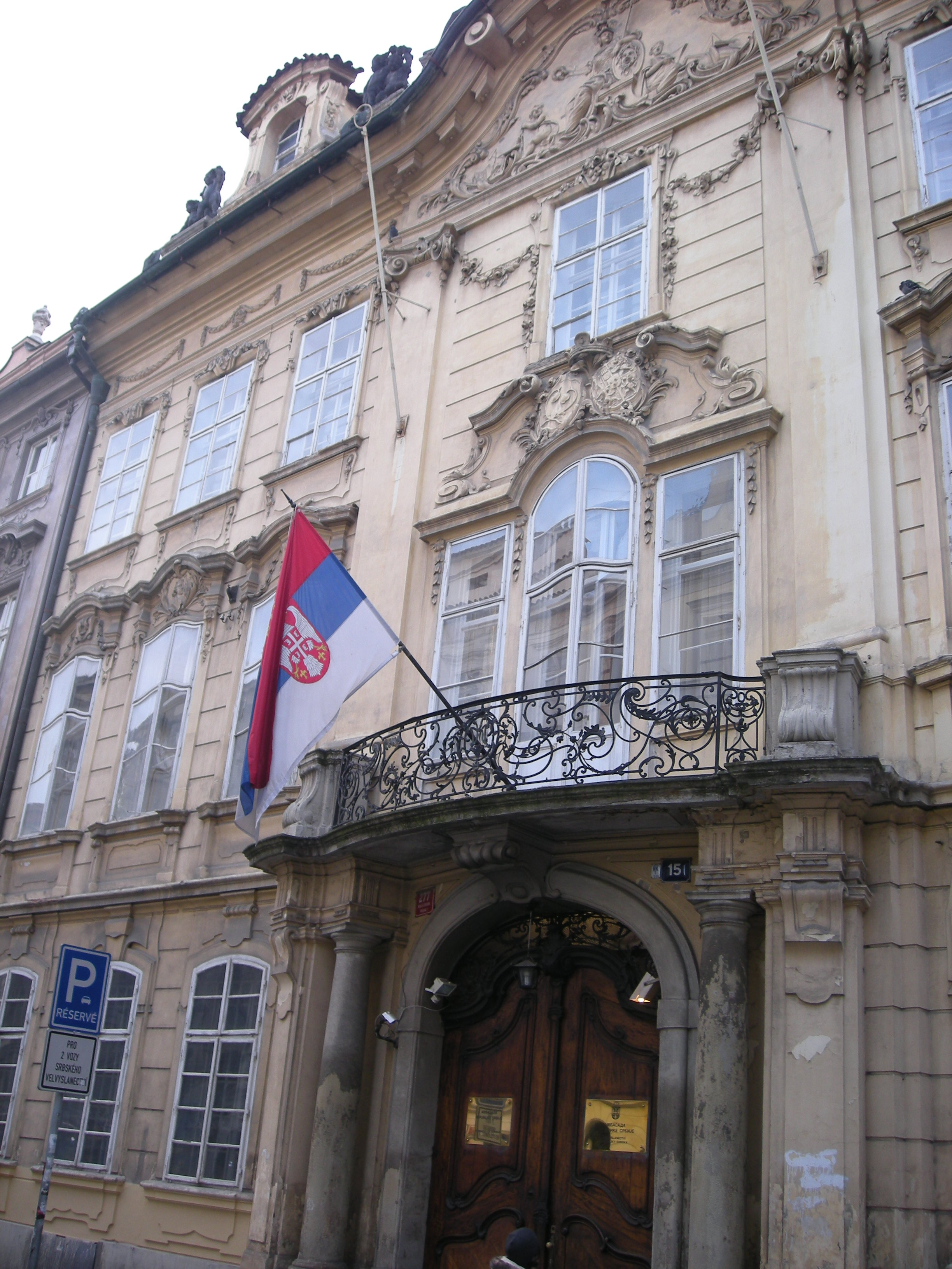 Kaunic Palace - Embassy of Serbia in Prague-Malá Strana, Czechia